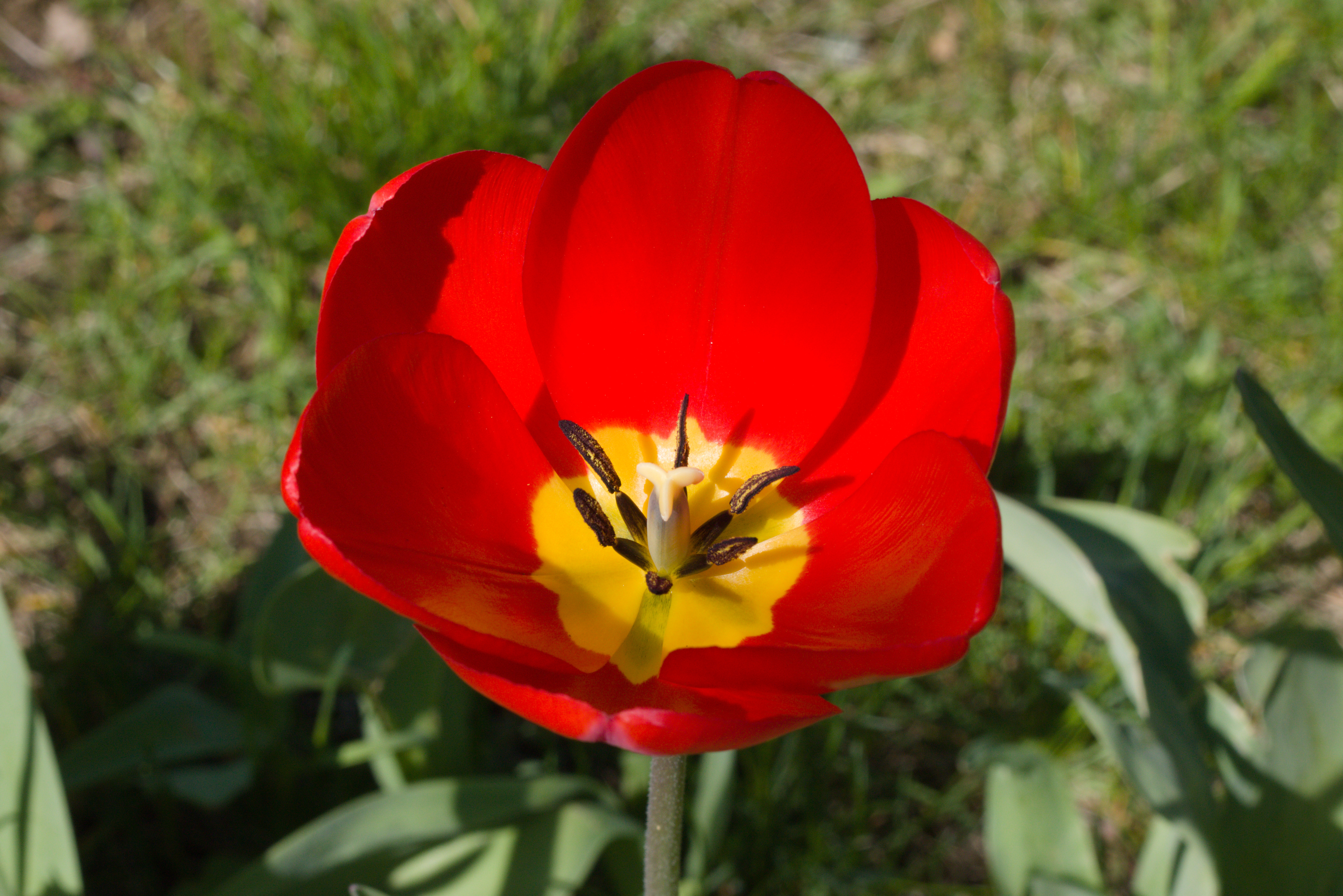 6 tepals, 6 stamens and a syncarpous gynoecium of 3 carpels